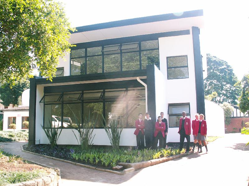 The Joan Savory Art Center